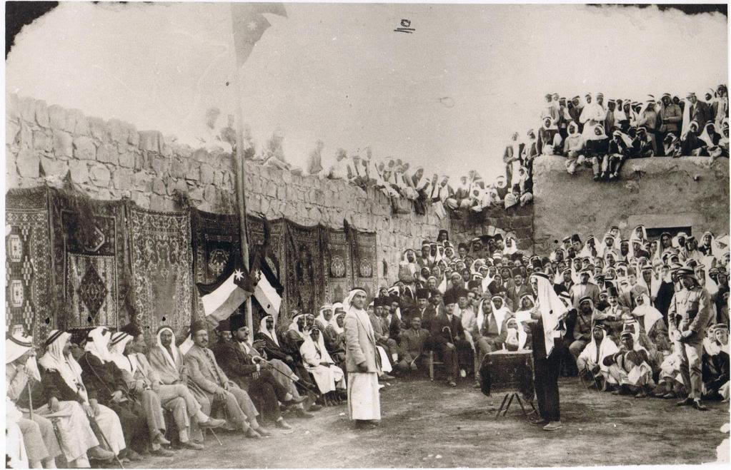 Jordanian poet Mustafa Wahbi Al-Tal, better known as Arar delivered a speech and a poem on the occasion of the presence of late Prince Rashed Al Khuzai